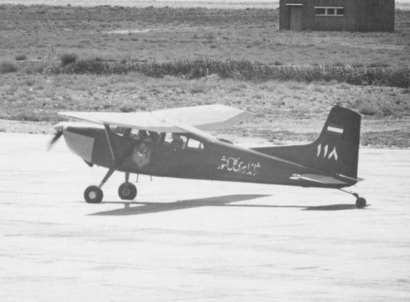 Cessna 185 belonging to Imperial Iranian Gendarmerie in Ghale Morghi Air Base .